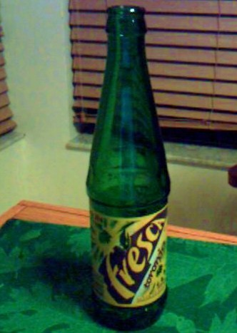 A Mexican Fresca bottle (Latin American formula) purchaed at Four Points Market west of Boynton Beach, Florida. I took this photo myself using my webcam. Invisible Cliché 02:19, 9 May 2007 (UTC)